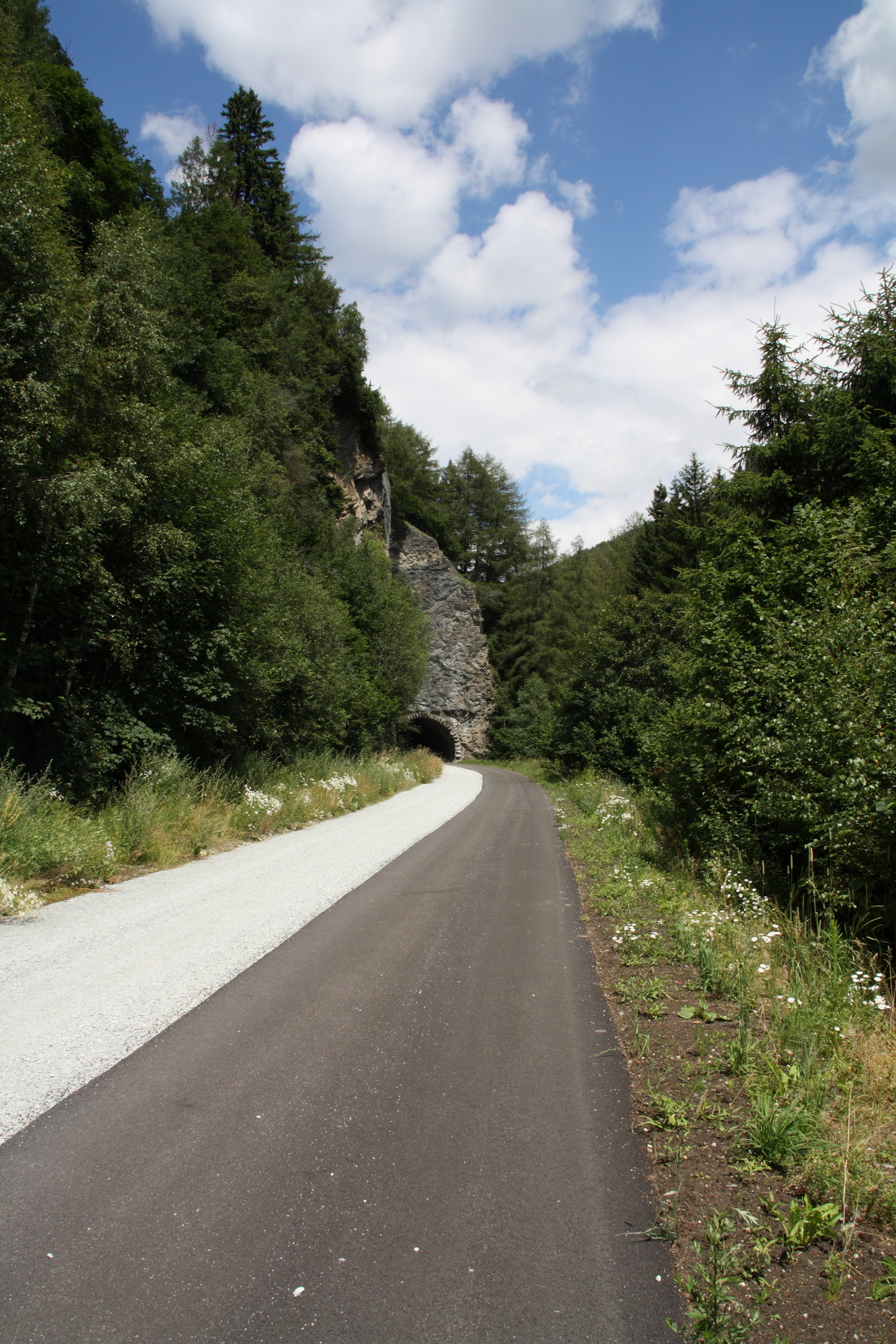 Brenner Pass (Italian: Passo del Brennero